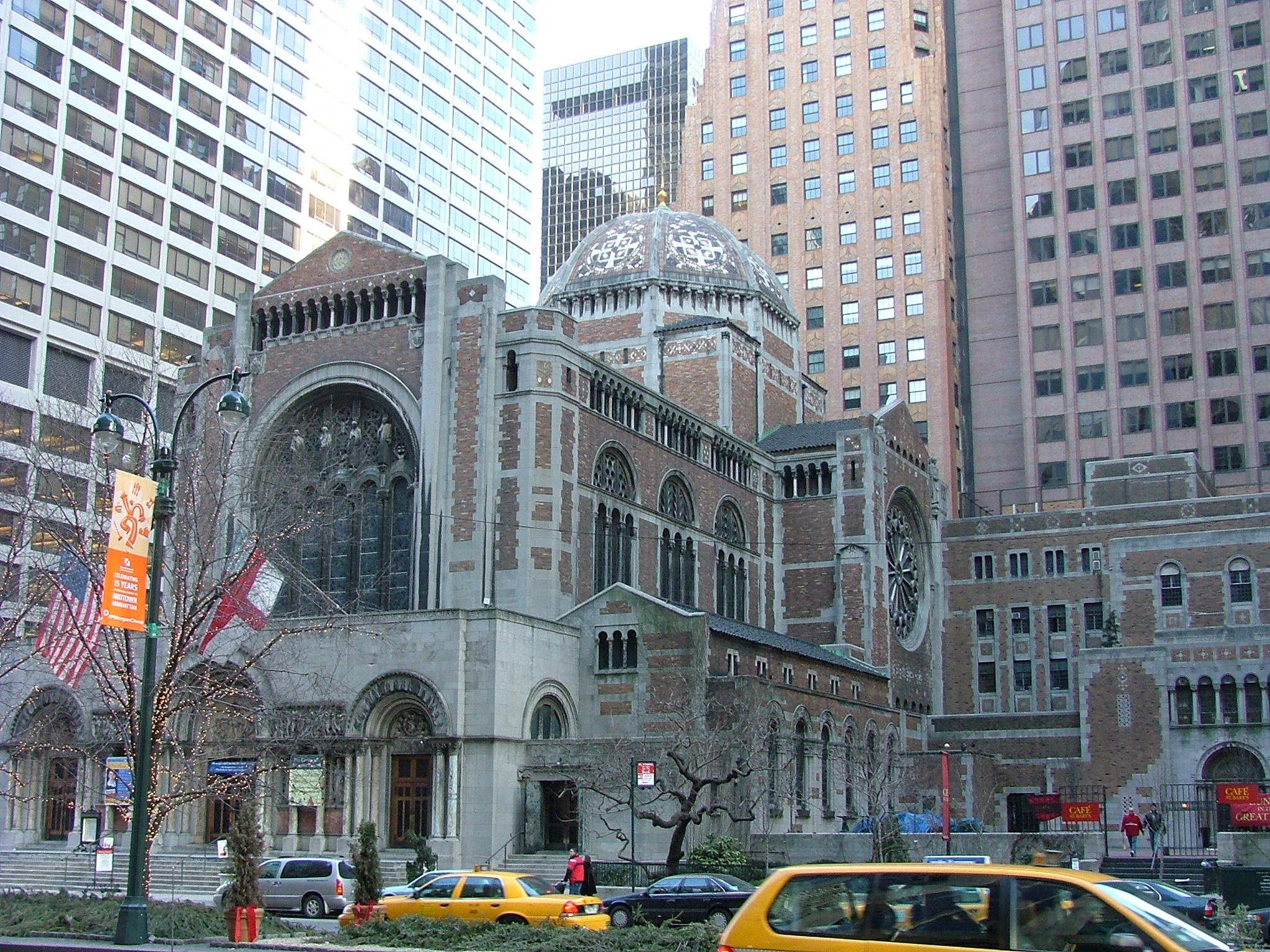 St. Bartholomew's Episcopal Church, New York